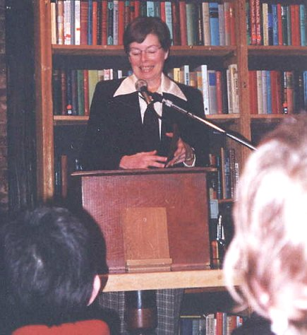 ' Ann Bannon giving a presentation at Elliot Bay Books in Seattle, Washington in 2002